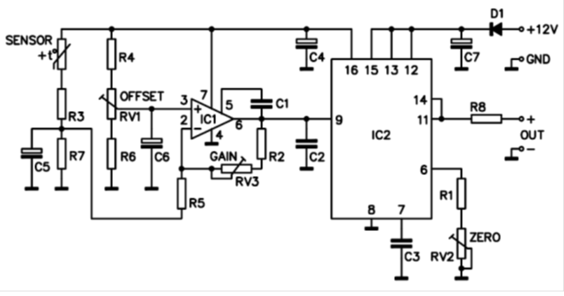 Skema